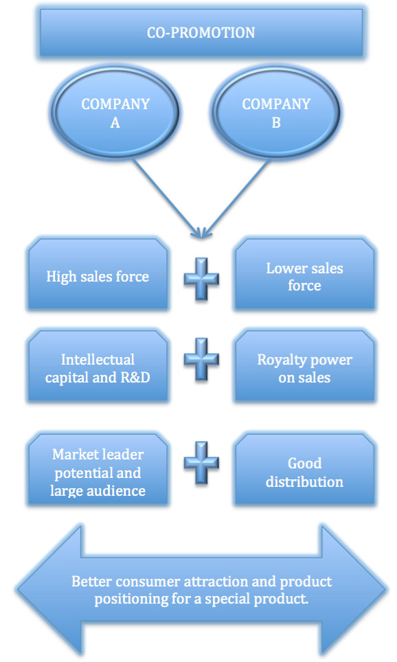 This picture represents how companies combine their strengths in order to have a better impact on the market for a specific product.